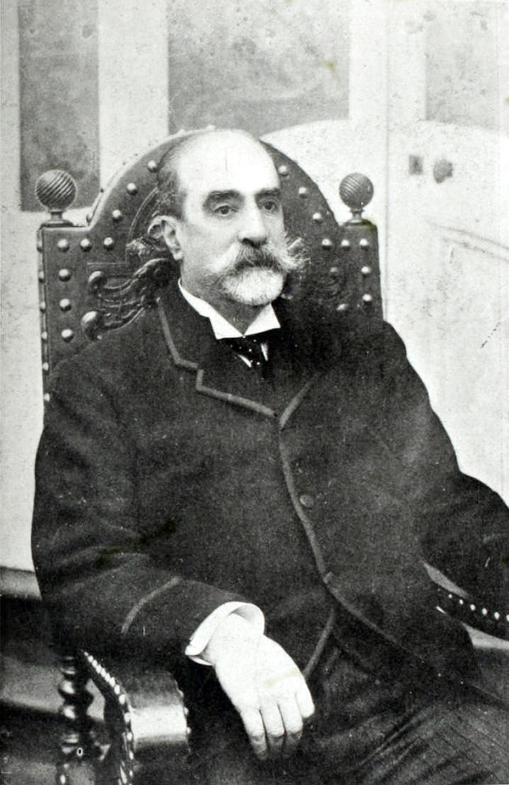 Ismael Tocornal Tocornal, GCMG (April 5, 1850 - October 6, 1929) was a Chilean politician and diplomat, and the first Governor of the Central Bank of Chile.